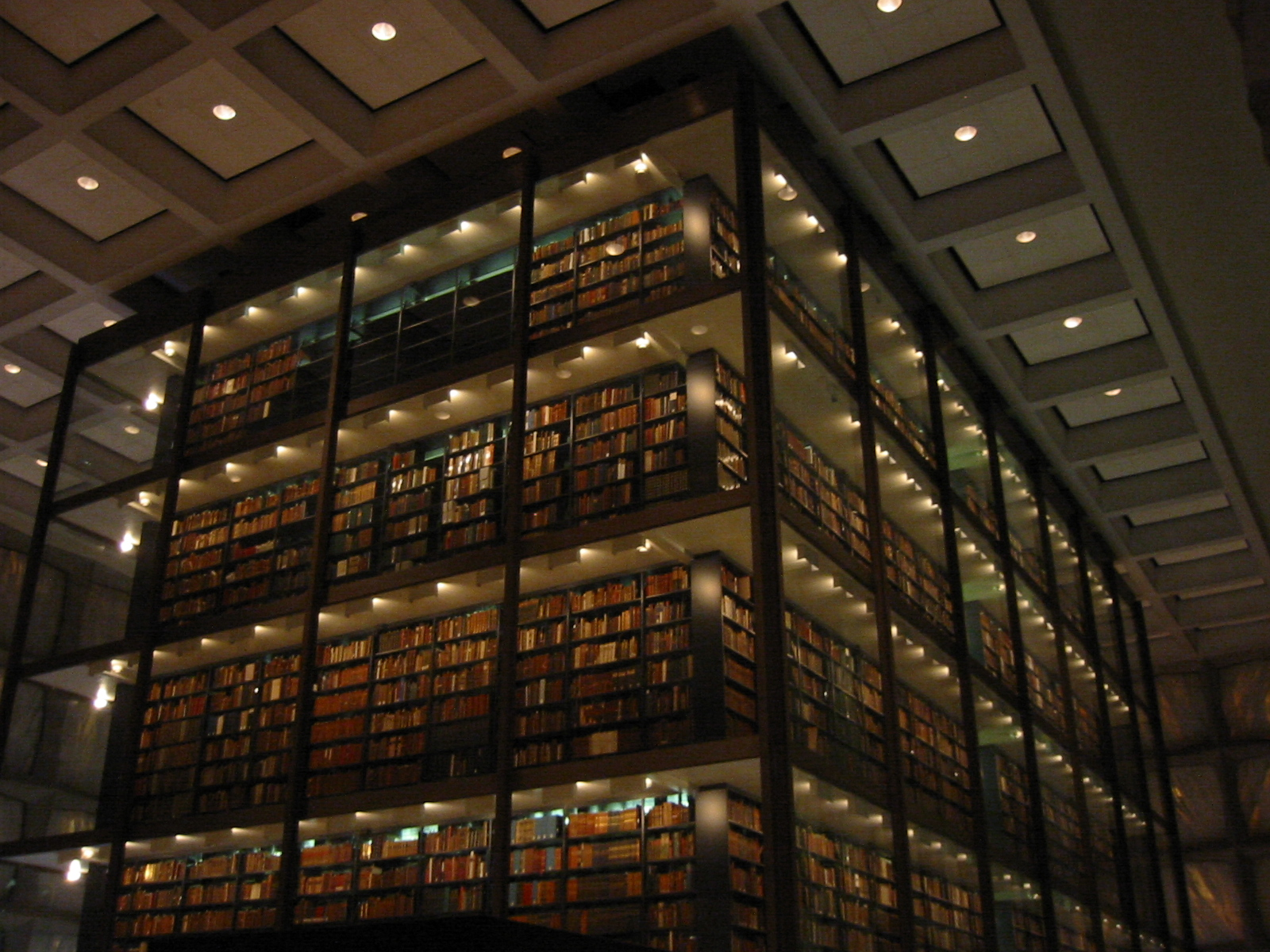 The central shelving area of the "Marble Cube," Yale University's Beinecke Rare Books and Manuscripts Library.